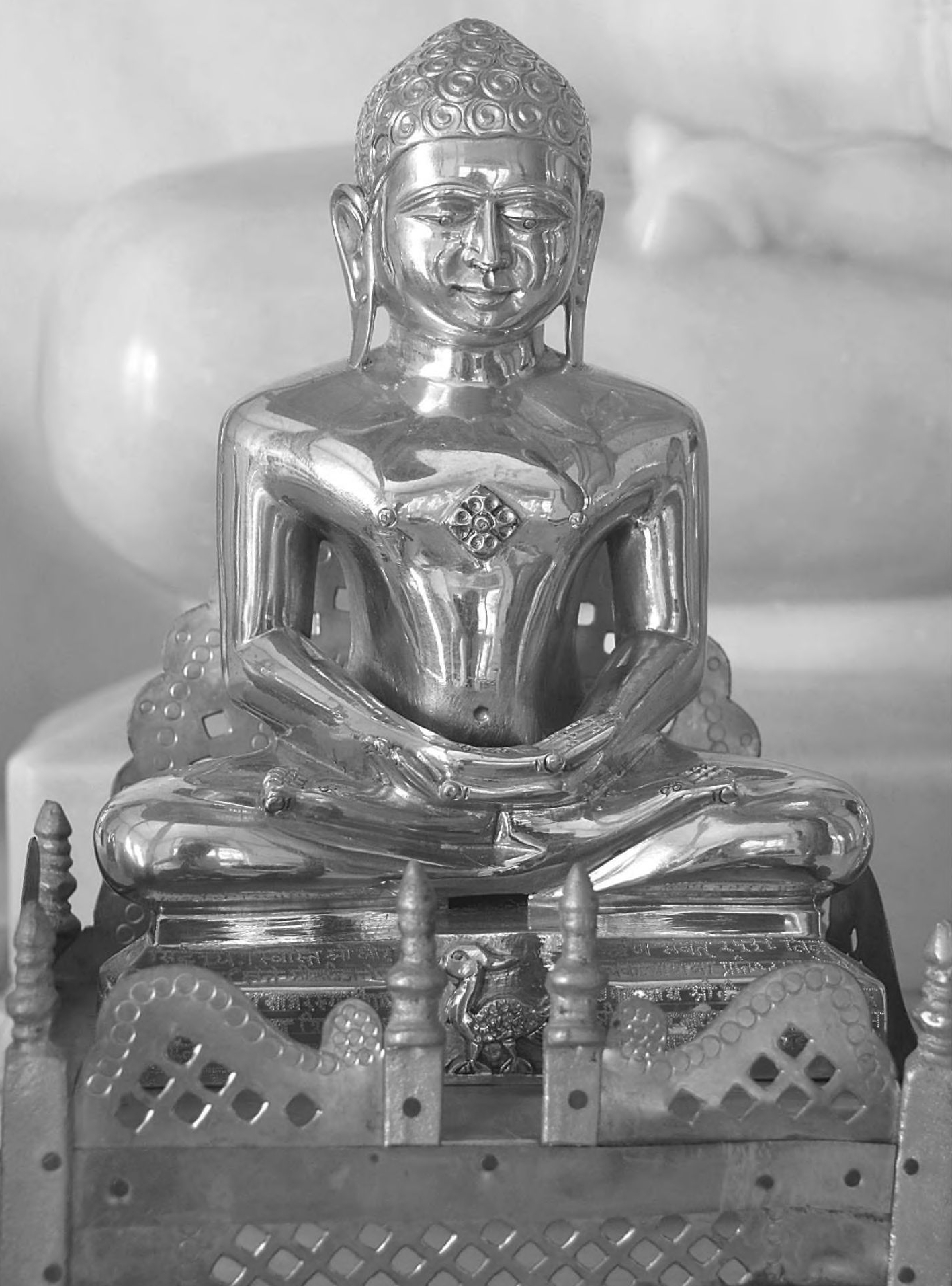 Photo from page-27 of the non-copyright book (Adoration of The Twenty-four Tirthankara) by Vijay K. Jain